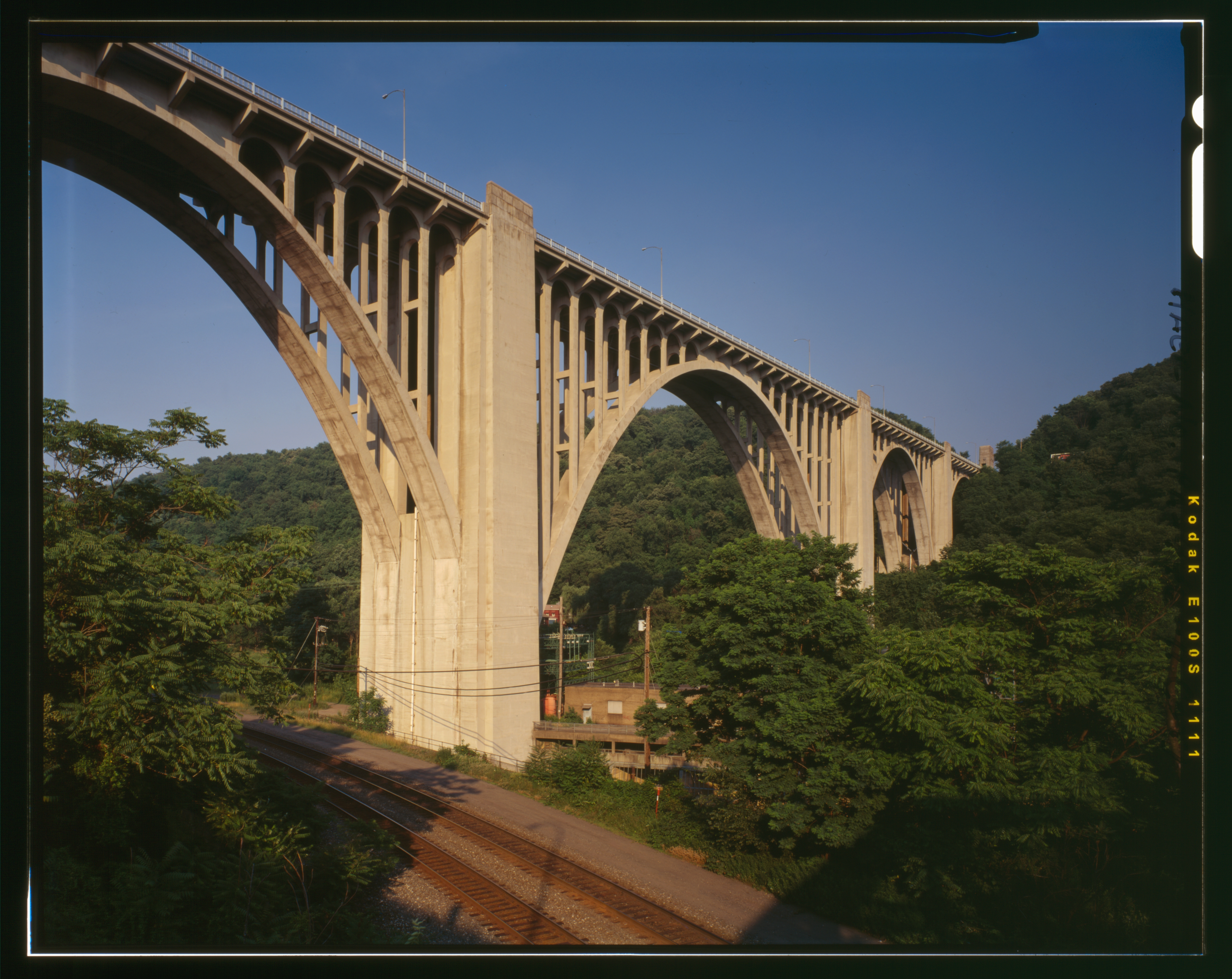 George Westinghouse Bridge, spanning Turtle Creek at Lincoln Highway (U.S. Route 30), East Pittsburgh, Allegheny County, Pennsylvania, USA. 1929-1932 Initial Construction. Joseph Elliott, photographer, , summer 1997. This image is in the public domain because it is a product of the United States government: National Register of Historic Places NRIS Number: 77001120. Historic American Engineering Record (Library of Congress). Survey number: HAER PA-446.